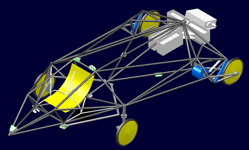 Maize & Blue CATIA model of chassis.